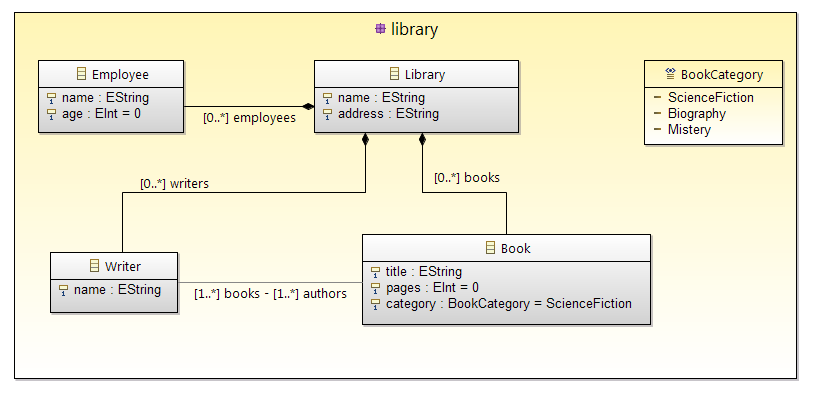 An EMF based meta-model